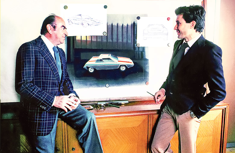 Nuccio Bertone and Marcello Gandini with the Ferrari Rainbow drawings in 1975/76